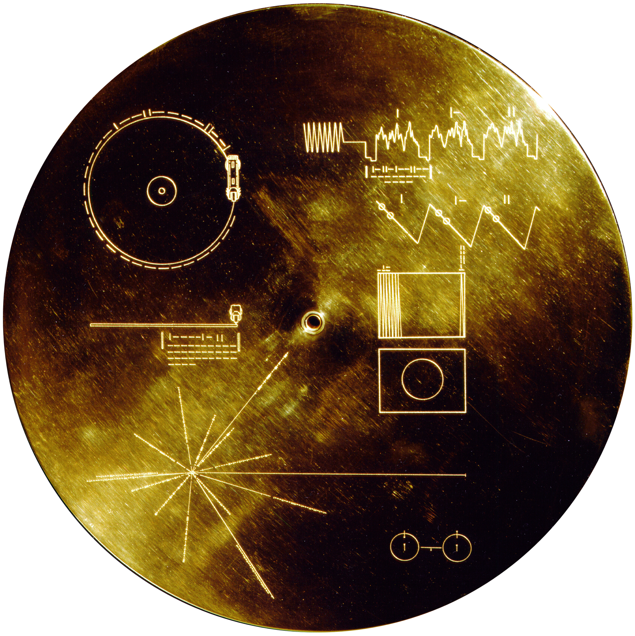 This photo of the Image:GPN-2000-001978.jpg is mirrored ==